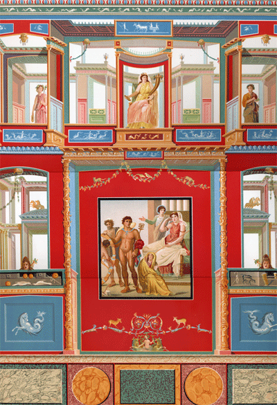 House of Vettii in Pompeii; watecolor by Luigi Bazzani.